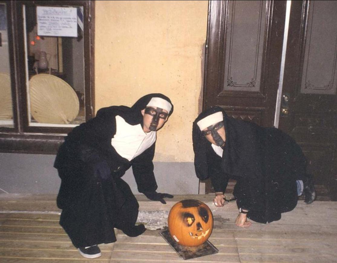 Jens Ehrs and Lars Jacob dressed for Hallowe'en in habits from Wild Side StoryPlace: Hökens gata 3, Stockholm, Sweden